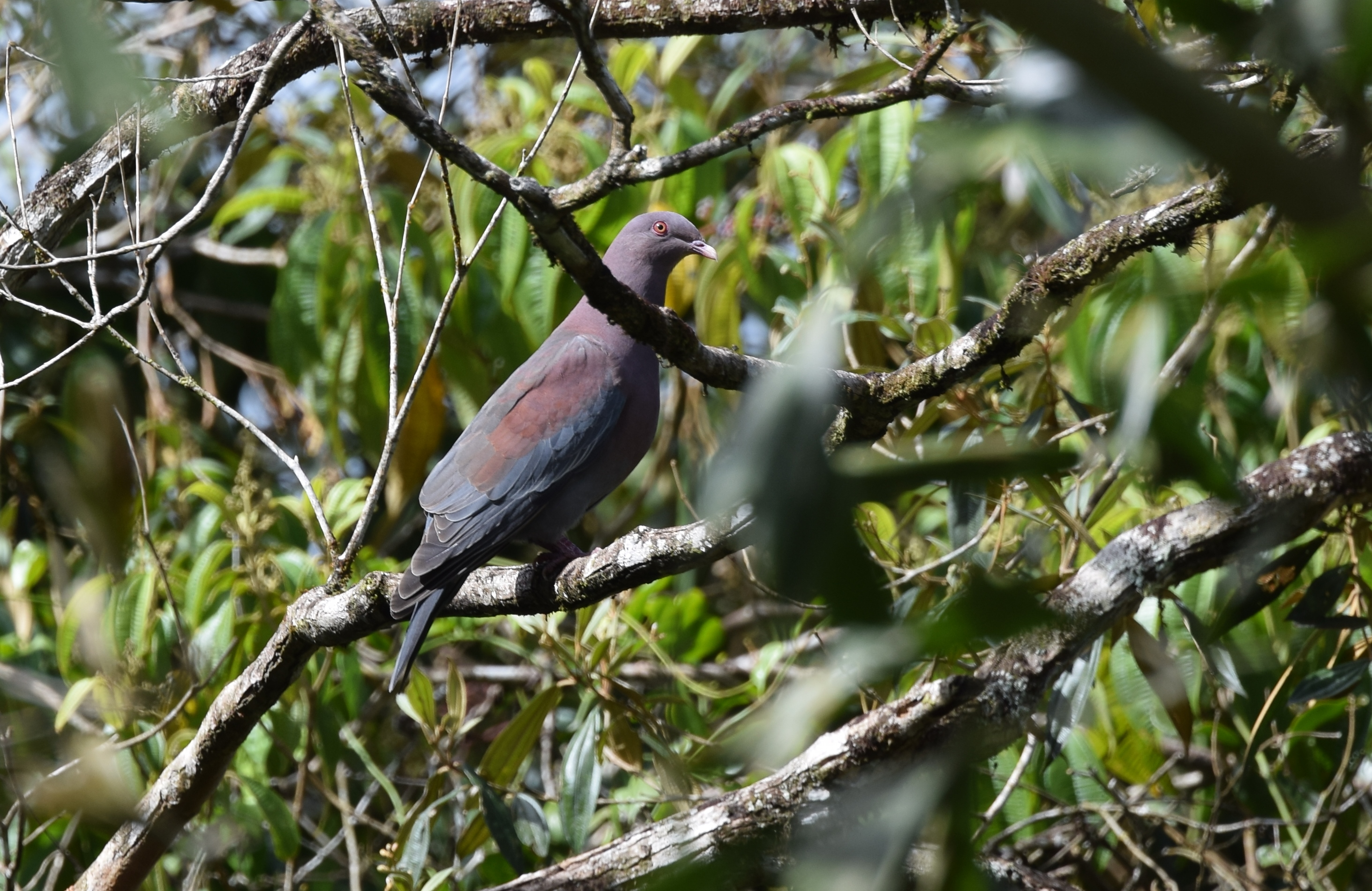 Costa Rica 2/14/16 Rancho Naturalista